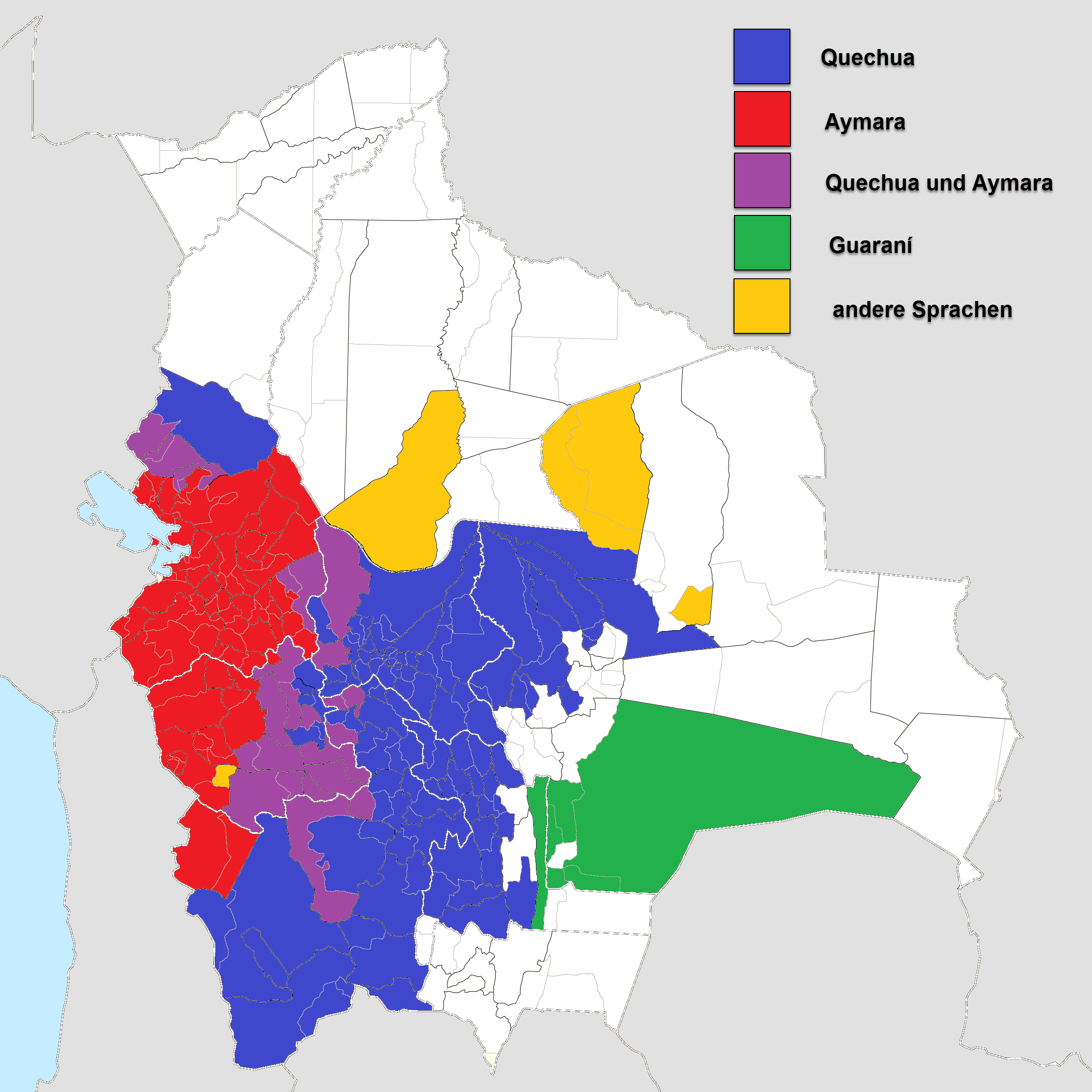 Based on the 2001 census, this map shows the prevalent indigenous language(s) for each municipio of Bolivia. Languages spoken by less than 20% of the municipio's population are not shown.